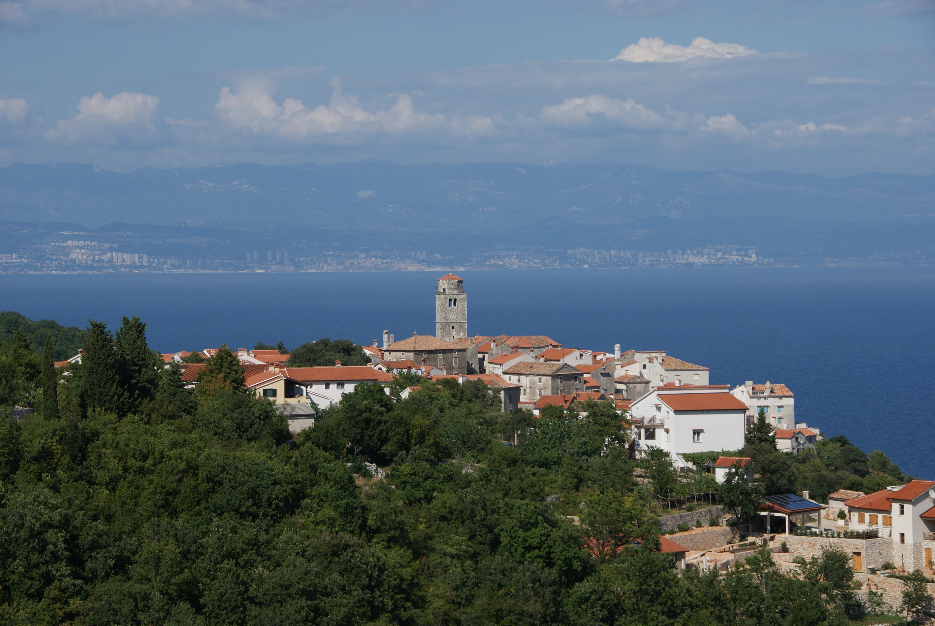 Brseč, Istria (Rijeka in the background)